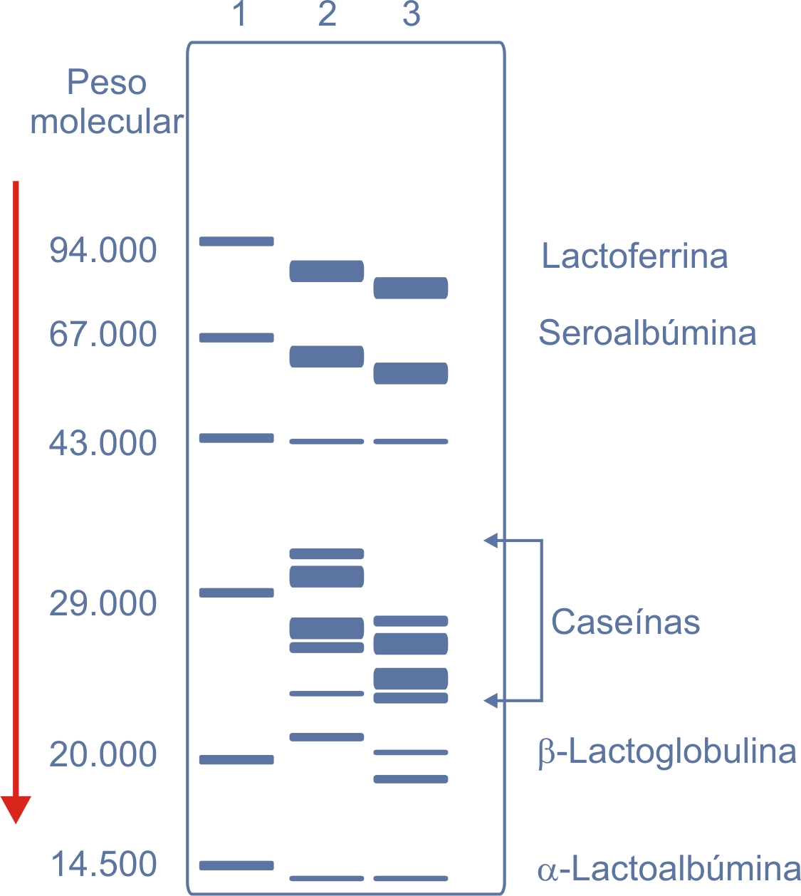 Electrophoresis pattern of milk proteins.